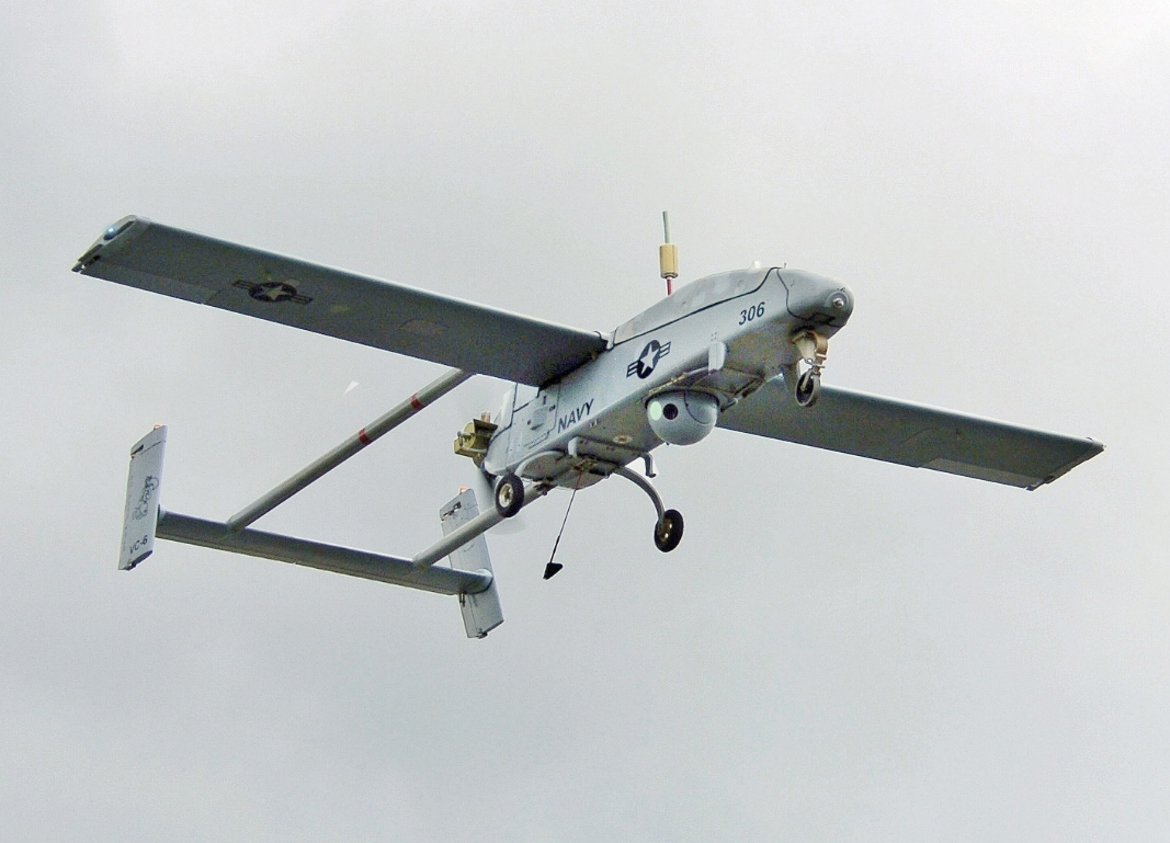 U.S. Navy RQ-2B Pioneer Unmanned Aerial Vehicle, assigned to the ?Firebees? of Fleet Composite Squadron Six (VC-6), uses its sensor turret to scan the crowd as it conducts a pass during its flight demonstration at the 2005 Naval UAV Air Demo held at the Webster Field Annex of Naval Air Station Patuxent River. The Pioneer Unmanned Aerial Vehicle (UAV) system provides real-time intelligence and reconnaissance capability to the field commander. This highly mobile system provides high quality video imagery for artillery or naval gunfire adjustment, battle damage assessment, and reconnaissance over land or sea. VC-6 is the Navy's sole operator of the Pioneer. The daylong UAV demonstration highlights unmanned technology and capabilities from the military and industry and offers a unique opportunity to display and demonstrate full-scale systems and hardware. This year's theme was, "Focusing Unmanned Technology on the Global War on Terror". U.S. Navy photo by Photographer?s Mate 2nd Class Daniel J. McLain (RELEASED)